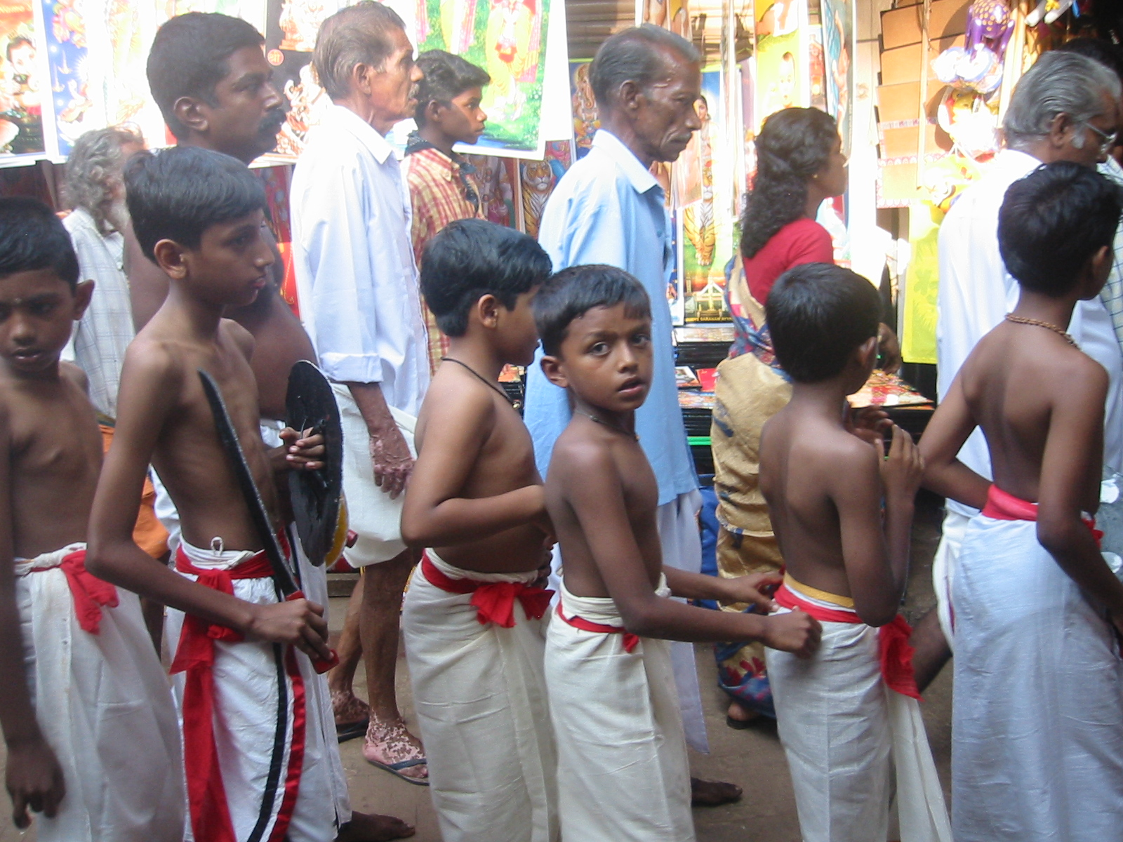 Boys lining up for Kalaripayattu, and ancient martial art of Kerala, India